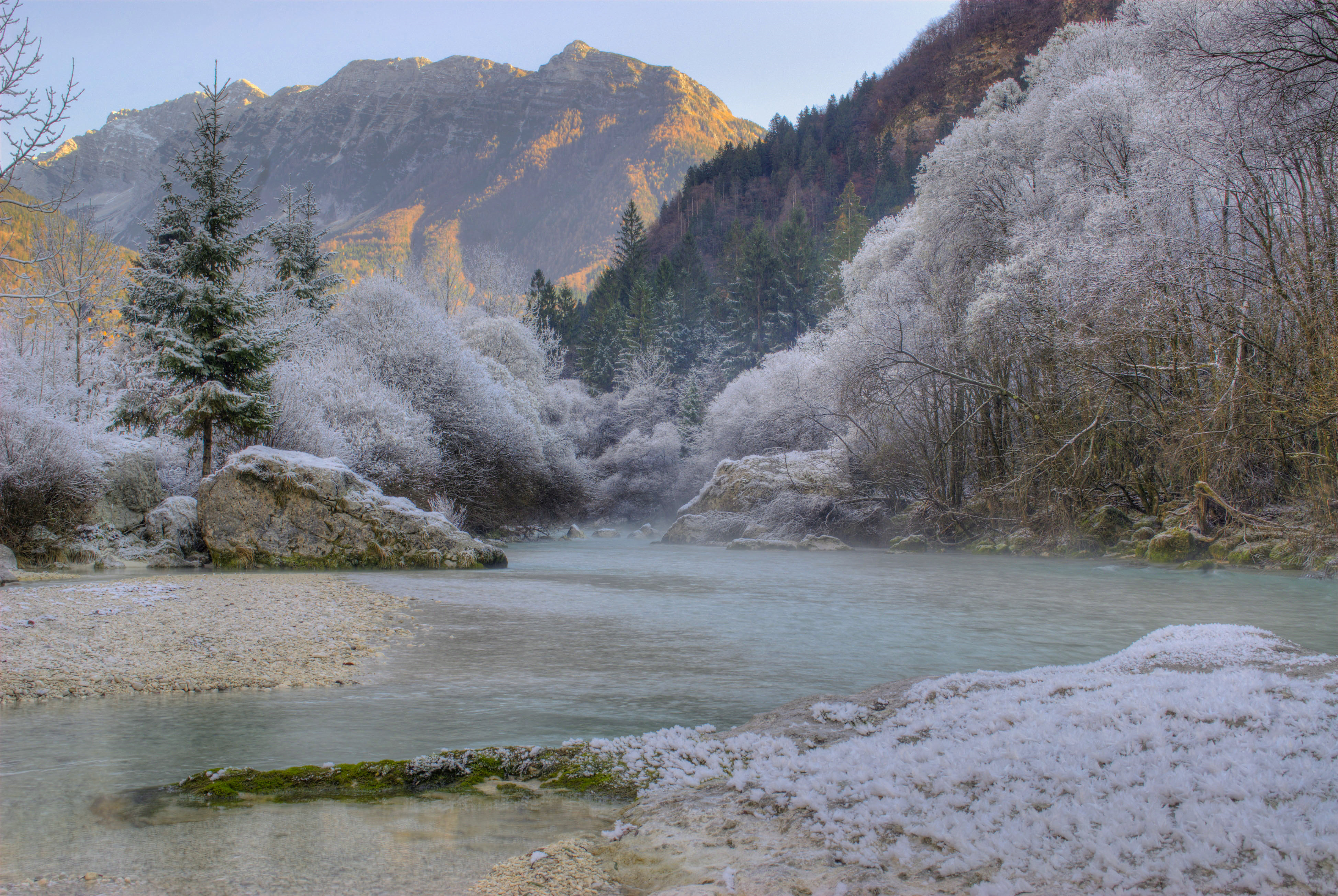 Soča river